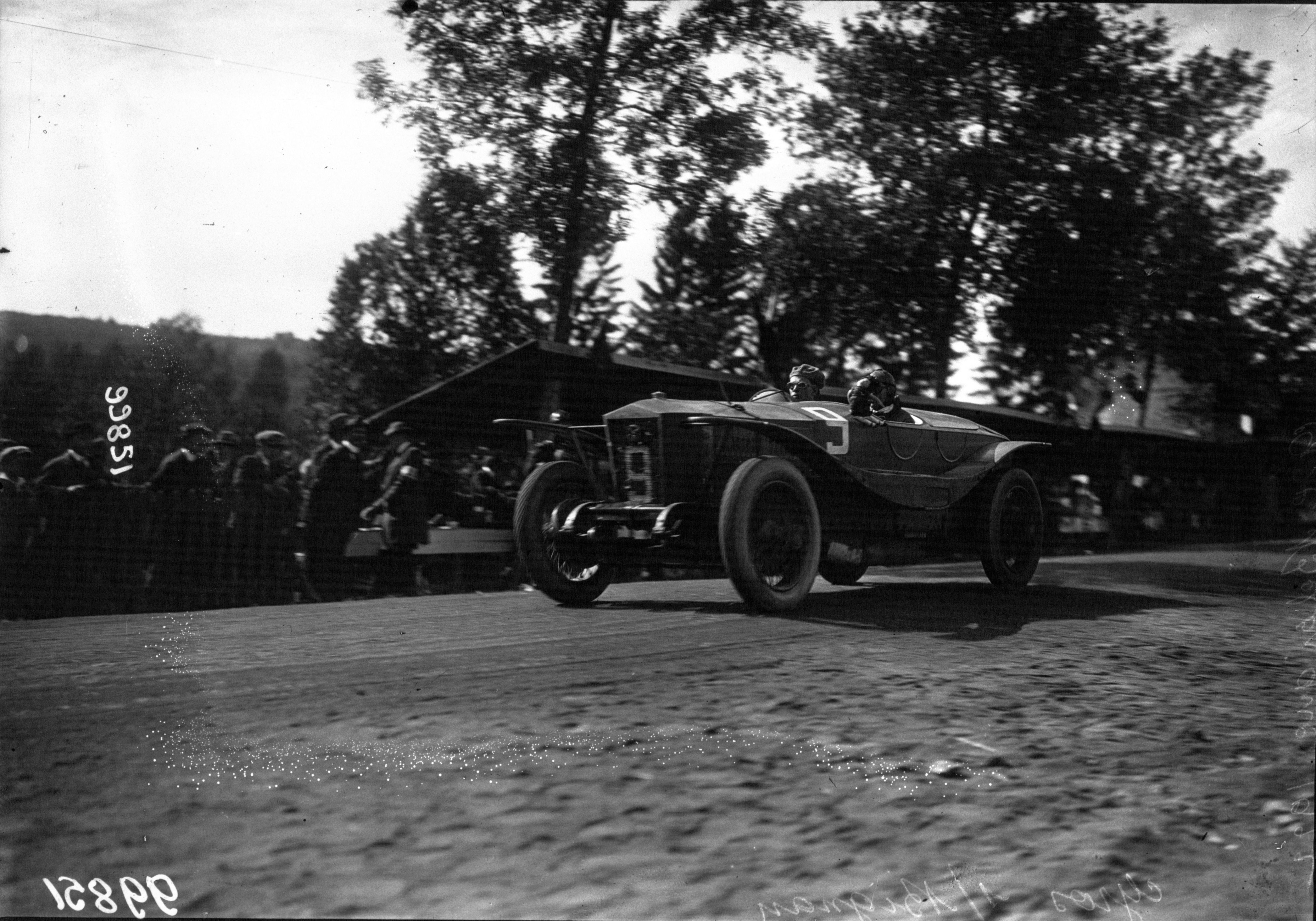 Bignan at the 1922 Belgian Grand Prix